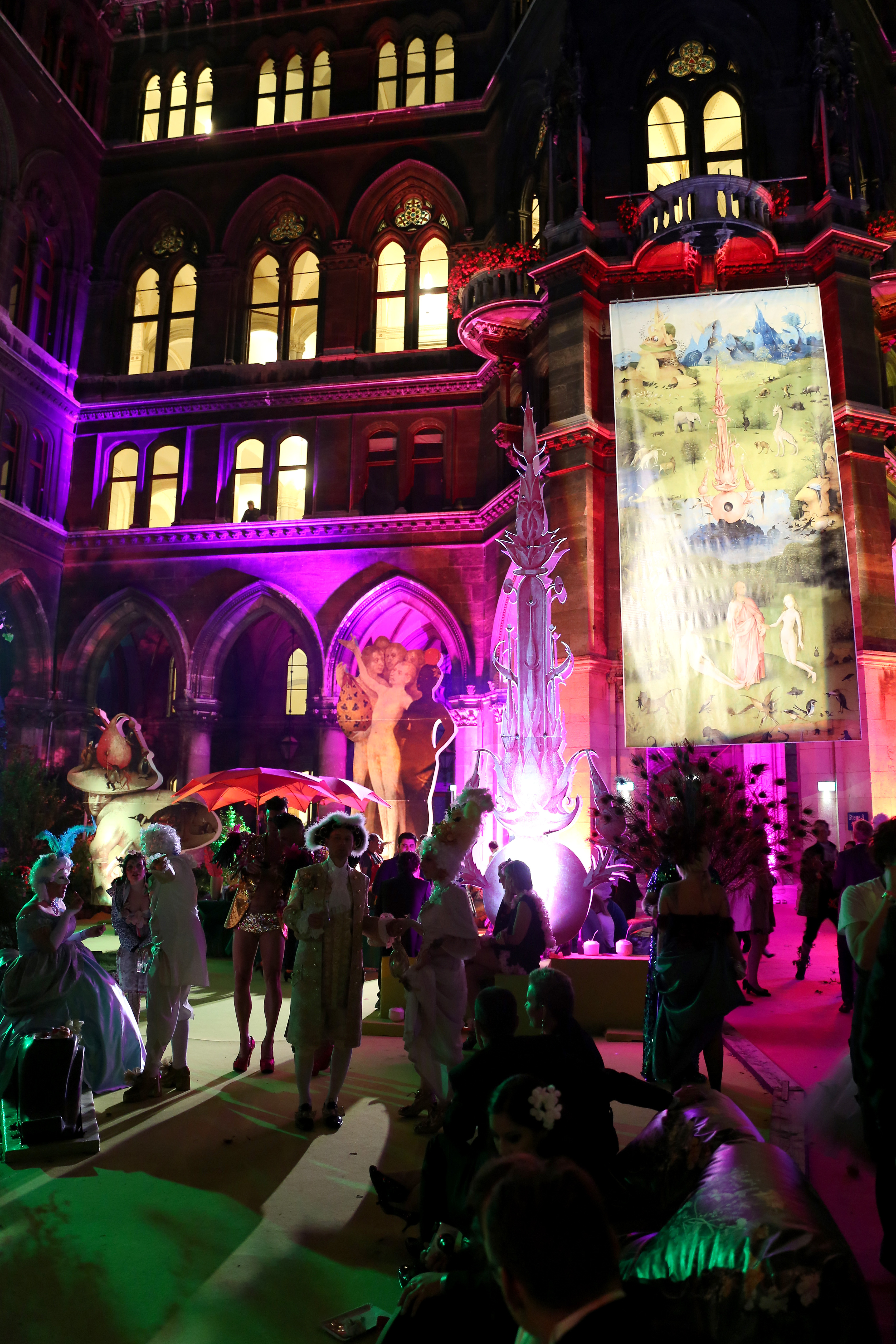 Life Ball 2014 at the city hall of Vienna, Vienna, Austria. Decorations inspired by Hieronymus Bosch's triptych "The Garden of Earthly Delights".